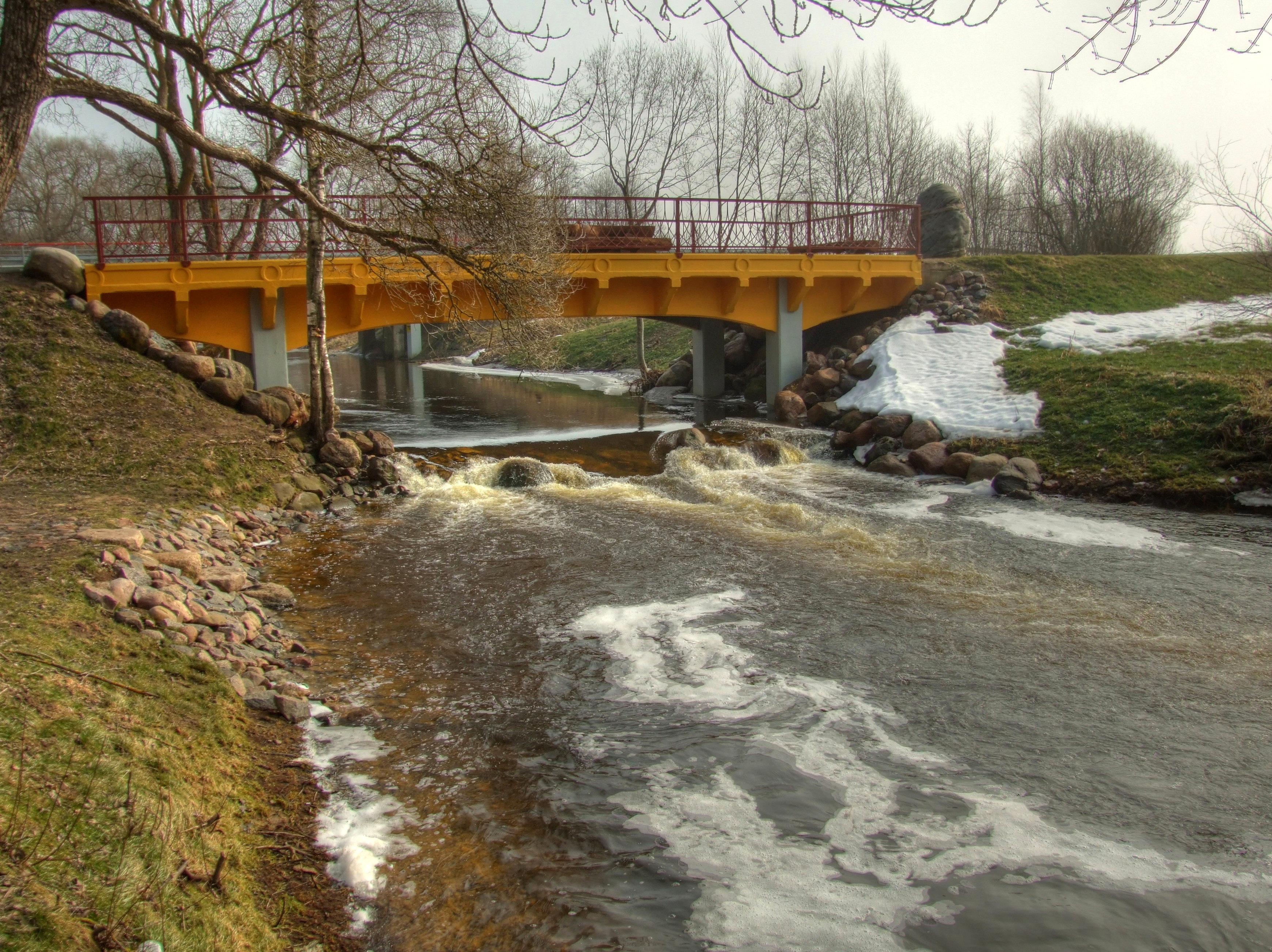 Springtime